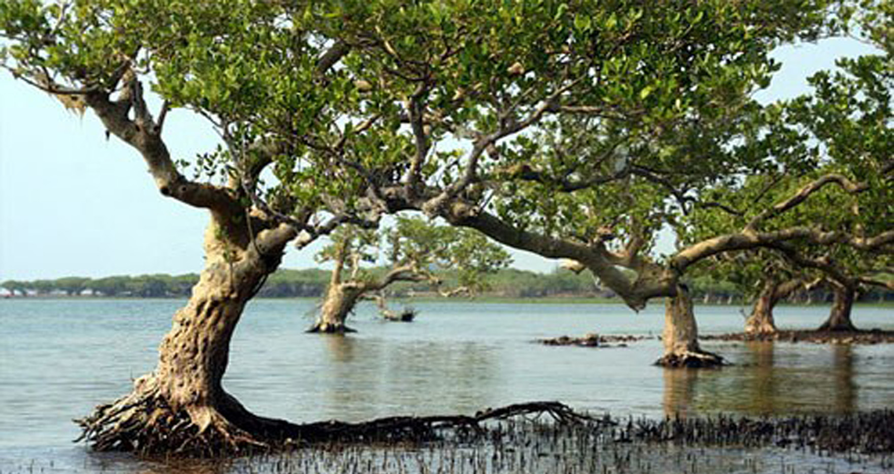 View of Dongzhai Harbour Mangrove Forest, Haikou, Hainan, PRC